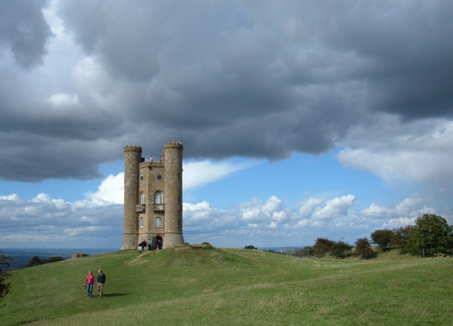 Broadway Tower. Storm clouds on Broadway Hill. It must be august bank holiday Monday.